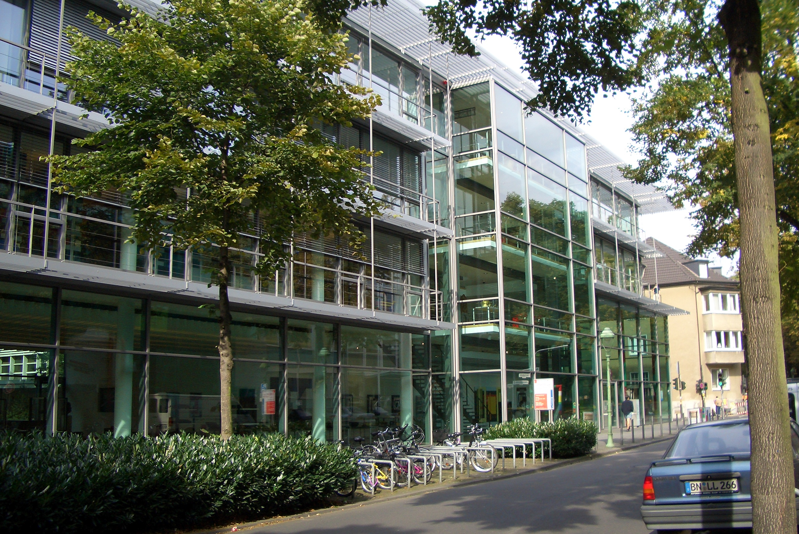 Photo of Arithmeum in Bonn, Germany.